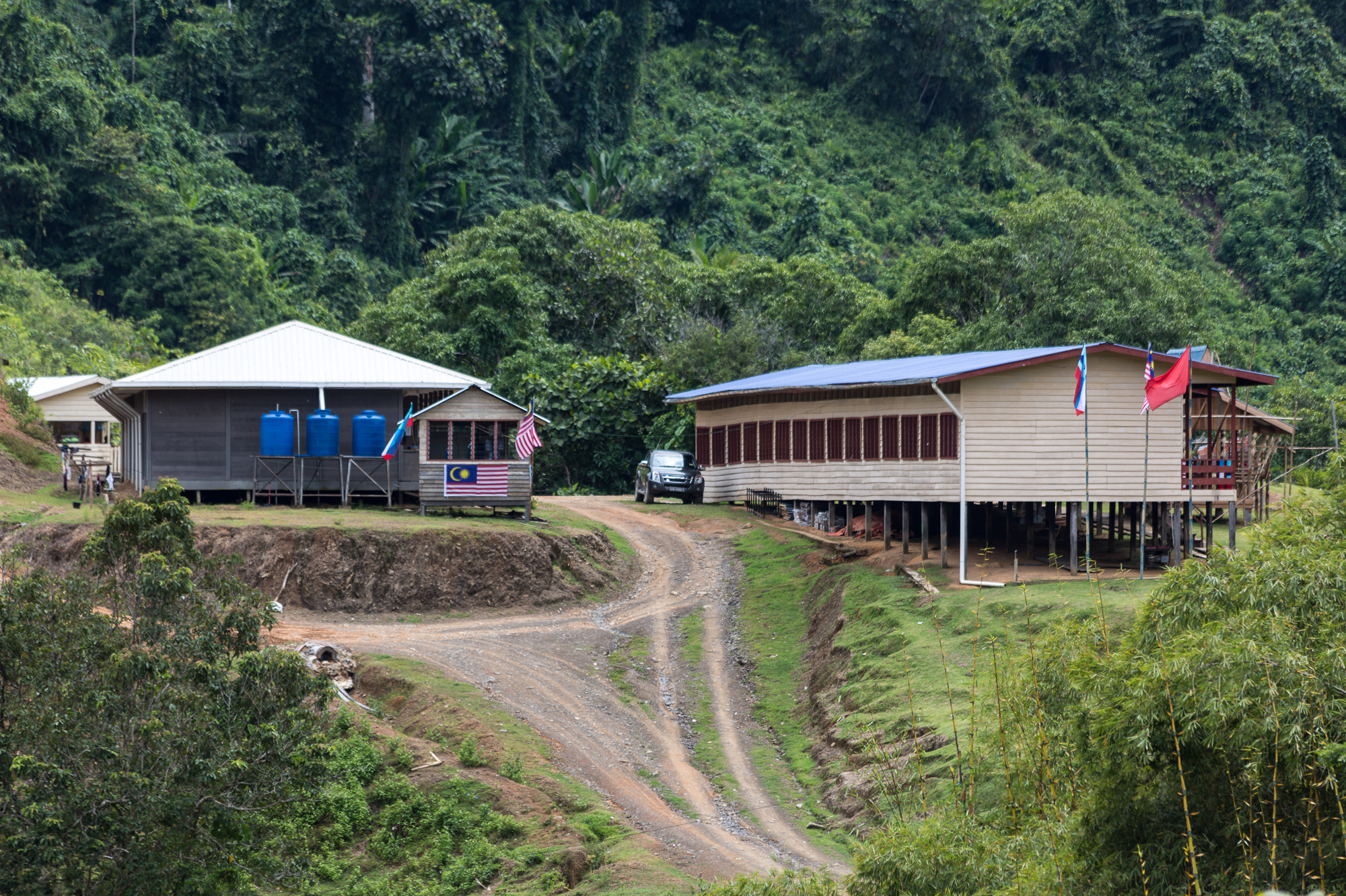 Pensiangan, Sabah, Malaysia: View of Sekolah Rendah Pekan Pensiangan (blue roofed building: classrooms of Tahun 1-3; building left side: living quarters of students and teachers